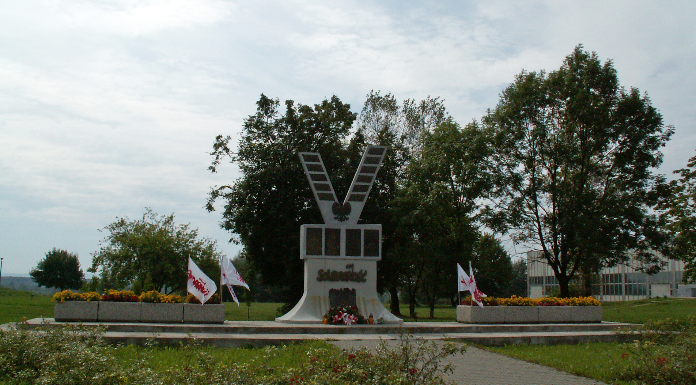 Solidarity Memorial ,Nowa Huta, Centralny square, Krakow, Poland